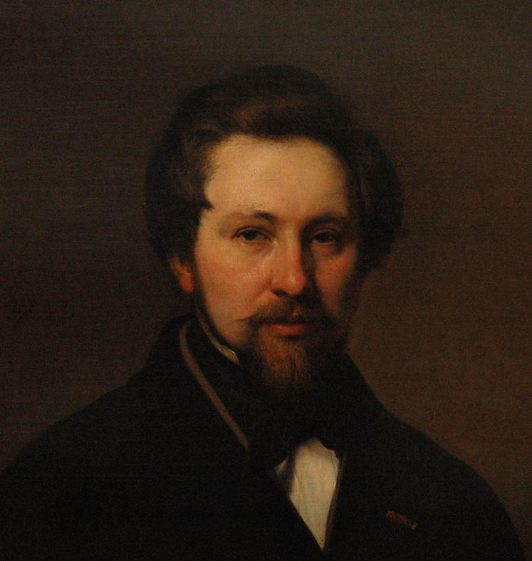 Portrait of Cluysenaer sr. by L.Gallait (Museum of the City of Brussels)